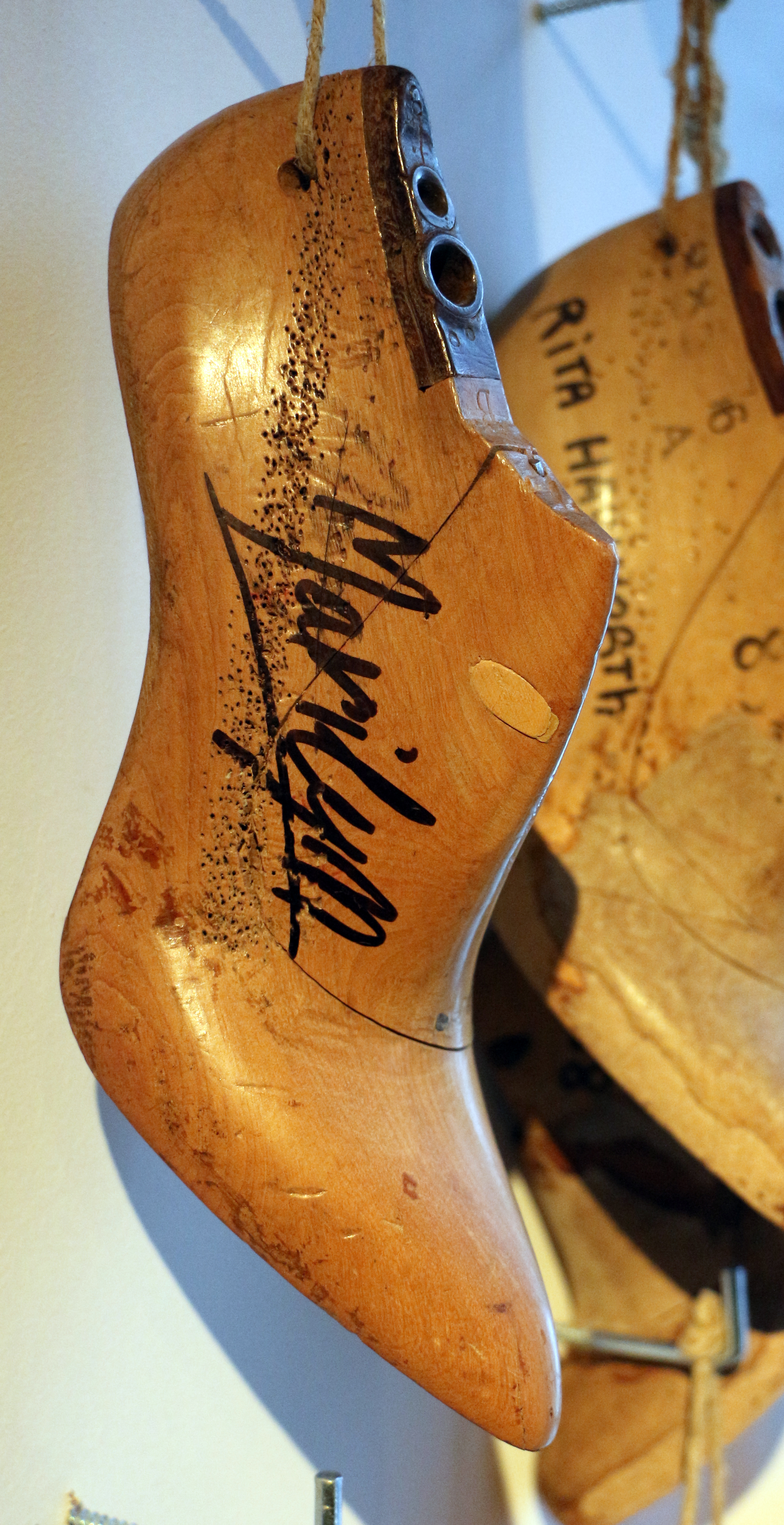 Museo Salvatore Ferragamo